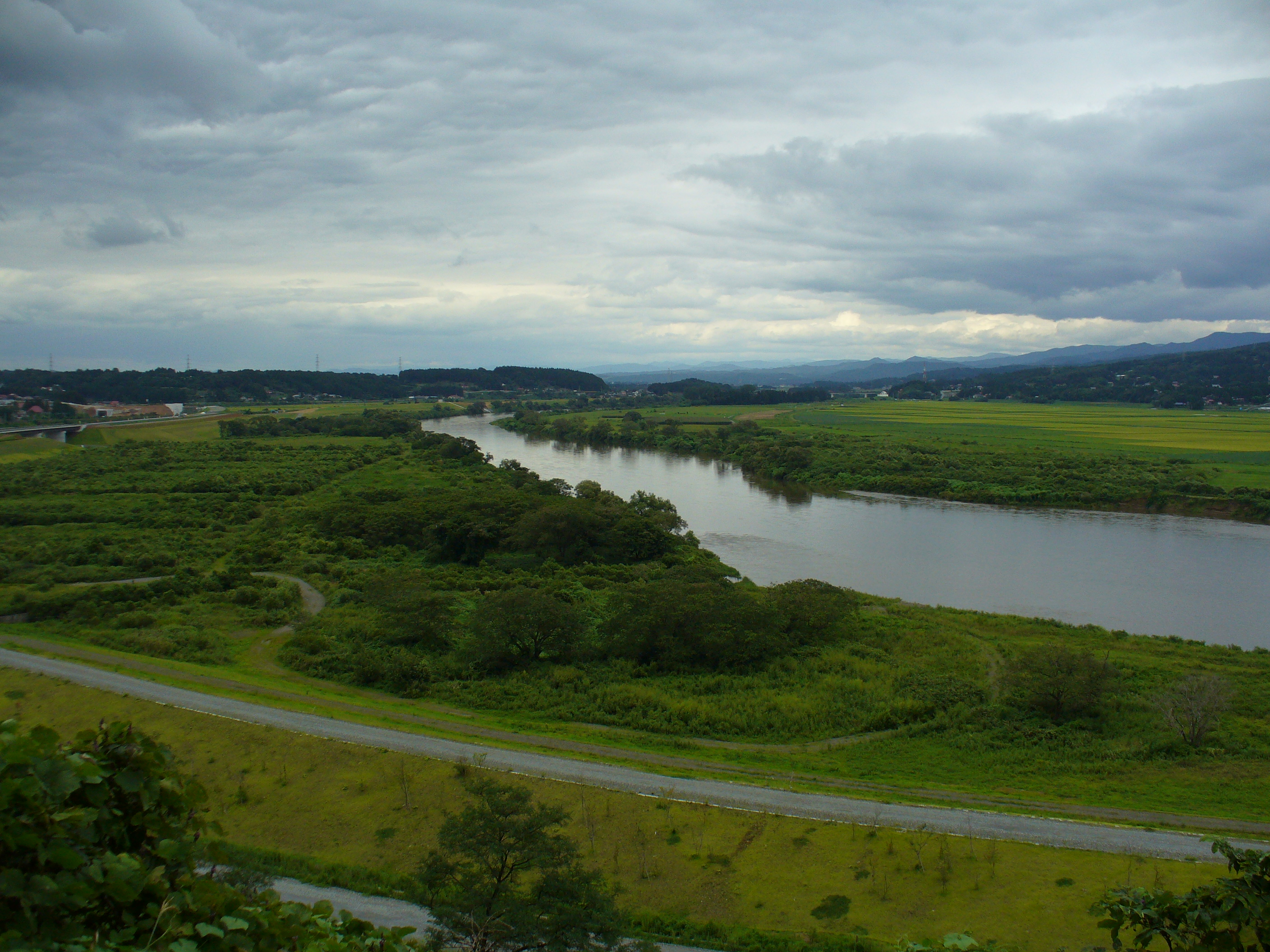 Kitakami River